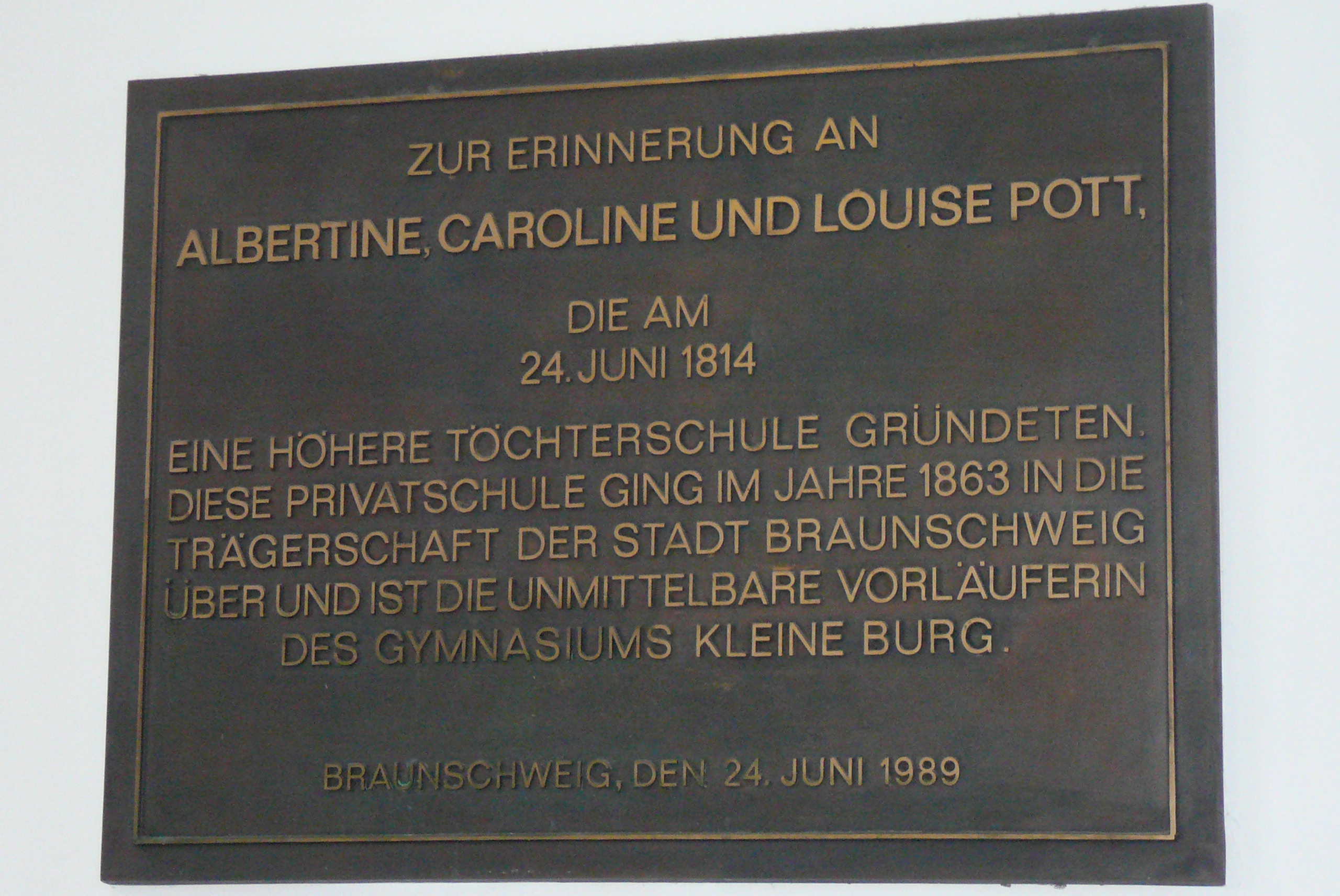 Commemorative plaque for the foundation of the “Höhere Töchterschule”, a higher school for girls, predecessor of the Gymnasium Kleine Burg in Braunschweig by the siblings Pott. It was put into the building of the Kleine Burg at the 175th foundation jubilee, a year after the 125th jubilee of the Gymnasium Kleine Burg.